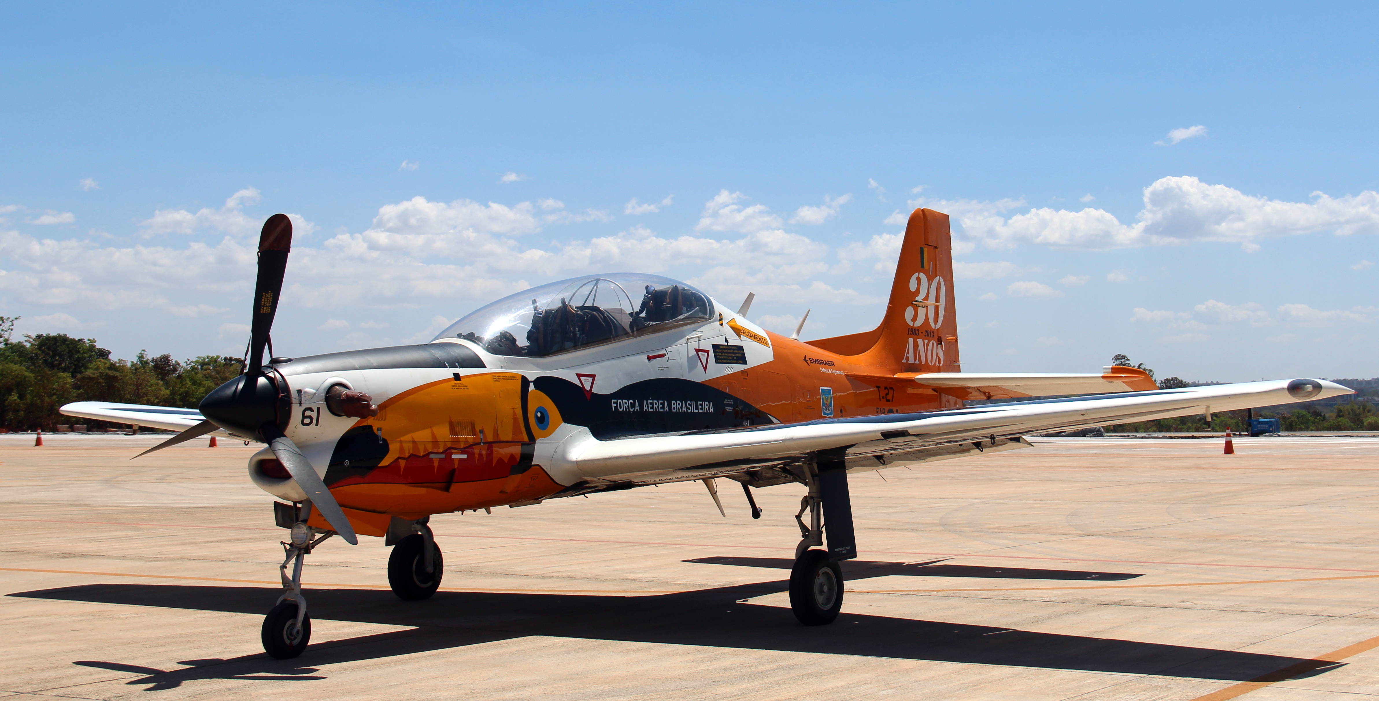 Used in the training of cadets at the Air Force Academy (AFA), the T-27 Tucano aircraft is celebrating 30 years of operations at the Brazilian Air Force. To celebrate this mark, one of AFA aircraft received a special painting that was presented to the public in 12 September 2014 at AFA headquarters in Pirassununga (SP).